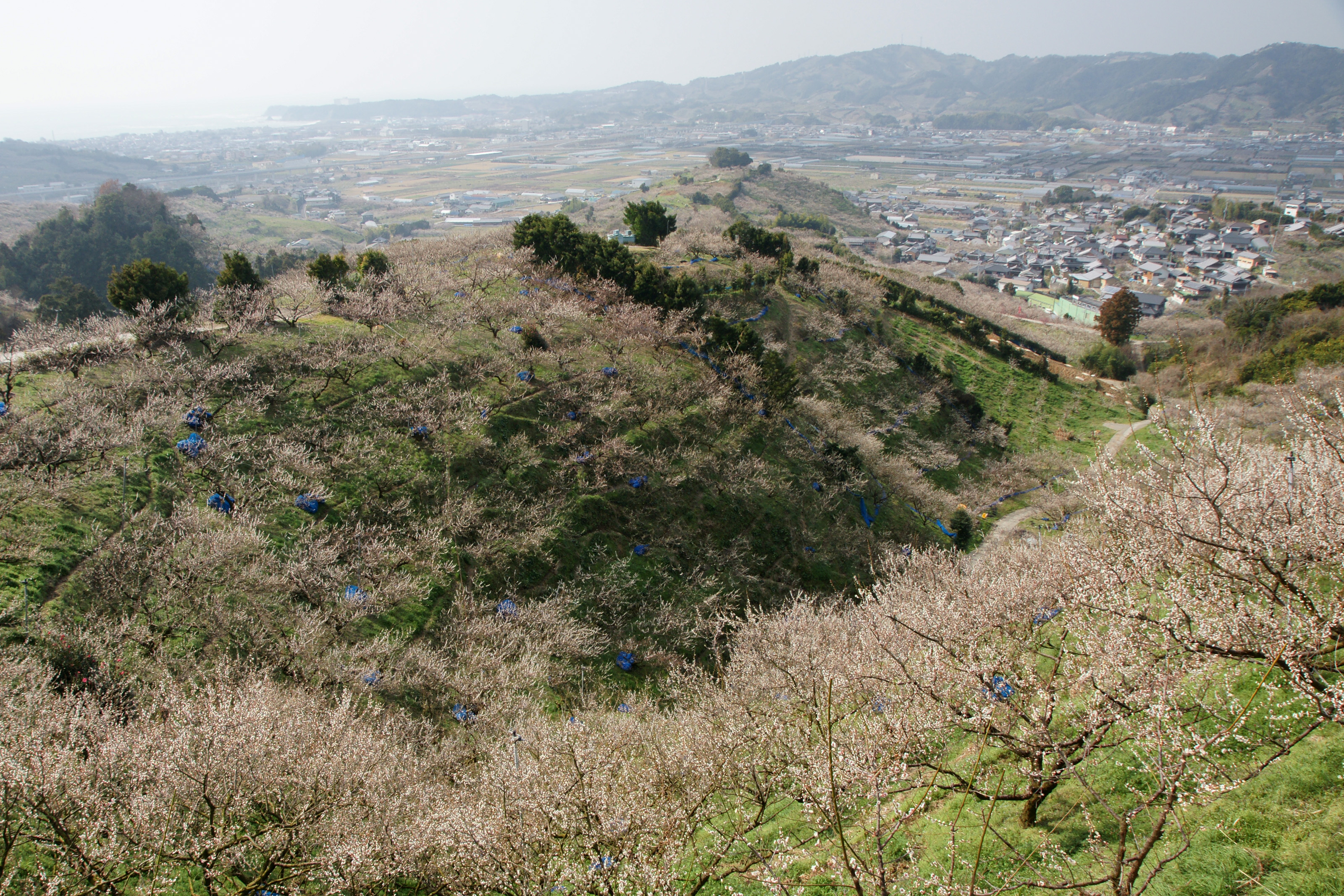 Minabe Bairin, Minabe, Wakayama prefecture, Japan